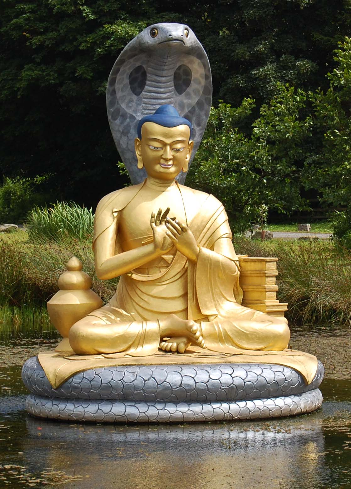 Statue of Nagajuna at Samye Ling Tibetan Buddhist Centre, Scotland.